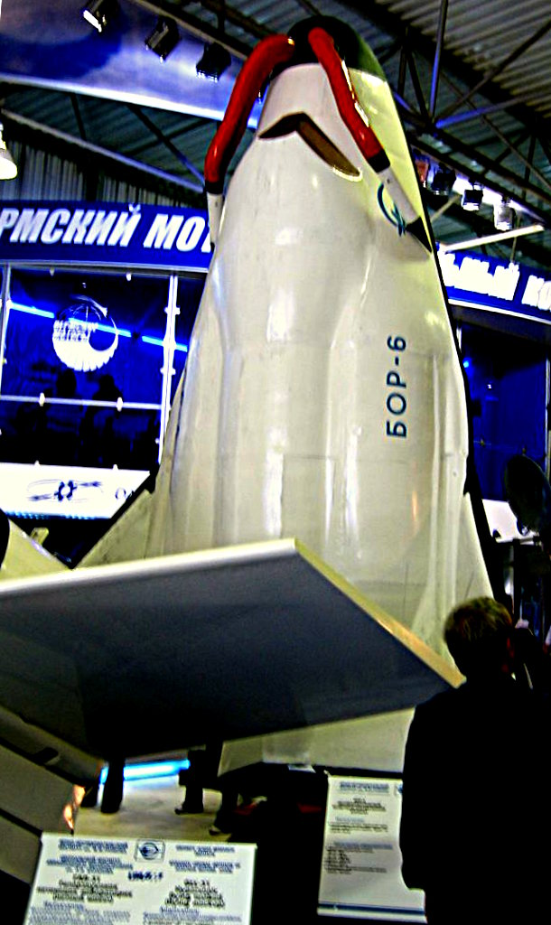 BOR-6 at MAKS, Zhukovskiy, 2005. BOR-6 was a subscale model of the Mikoyan-Gurevich MiG-105 (Spiral space plane), used to gather aerodynamic data.